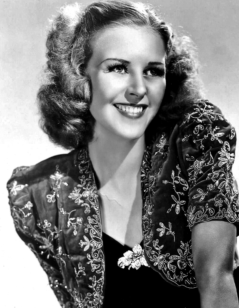 Publicity photo of Genevieve Tobin.